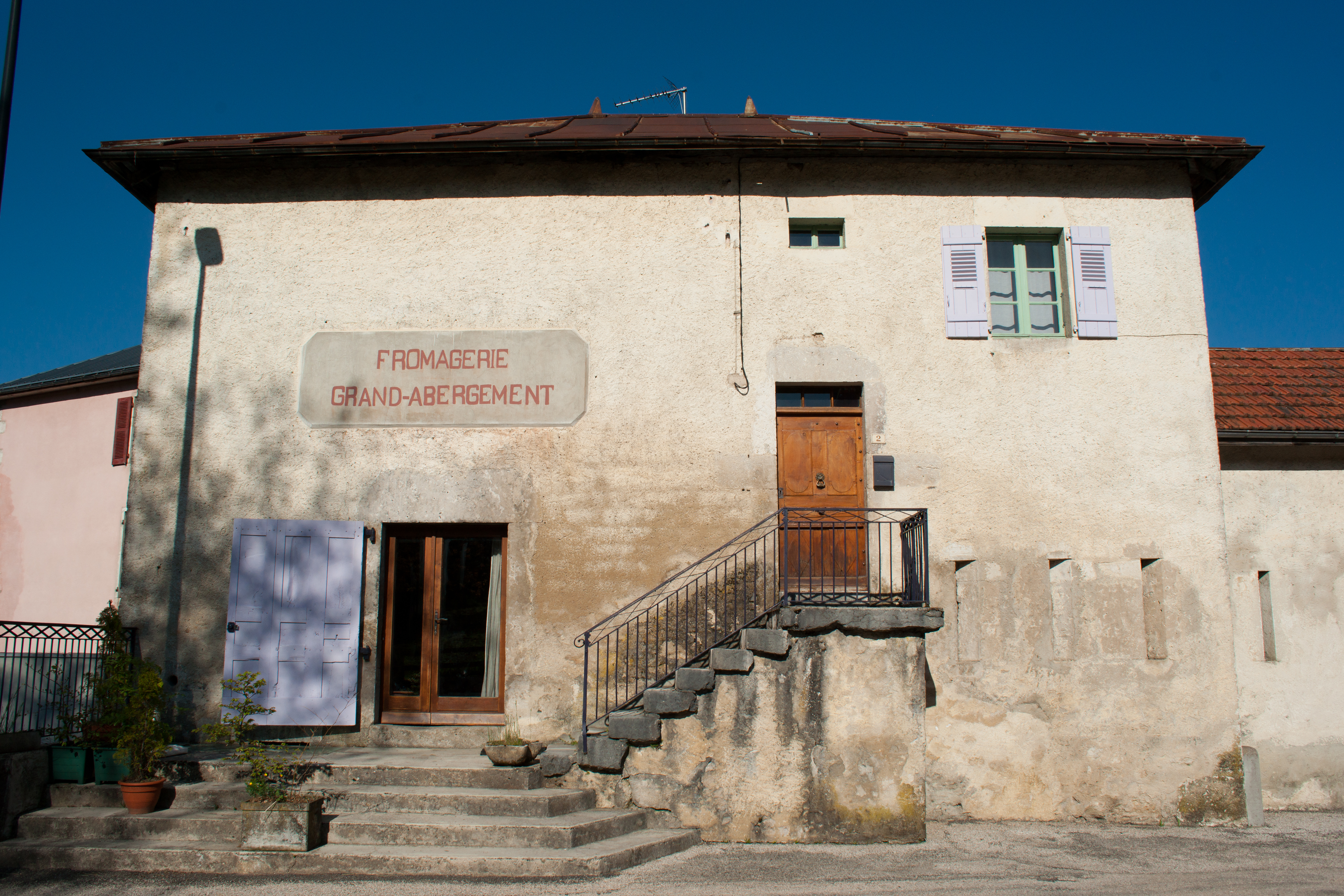 Cheese factory, Le Grand-Abergement, France